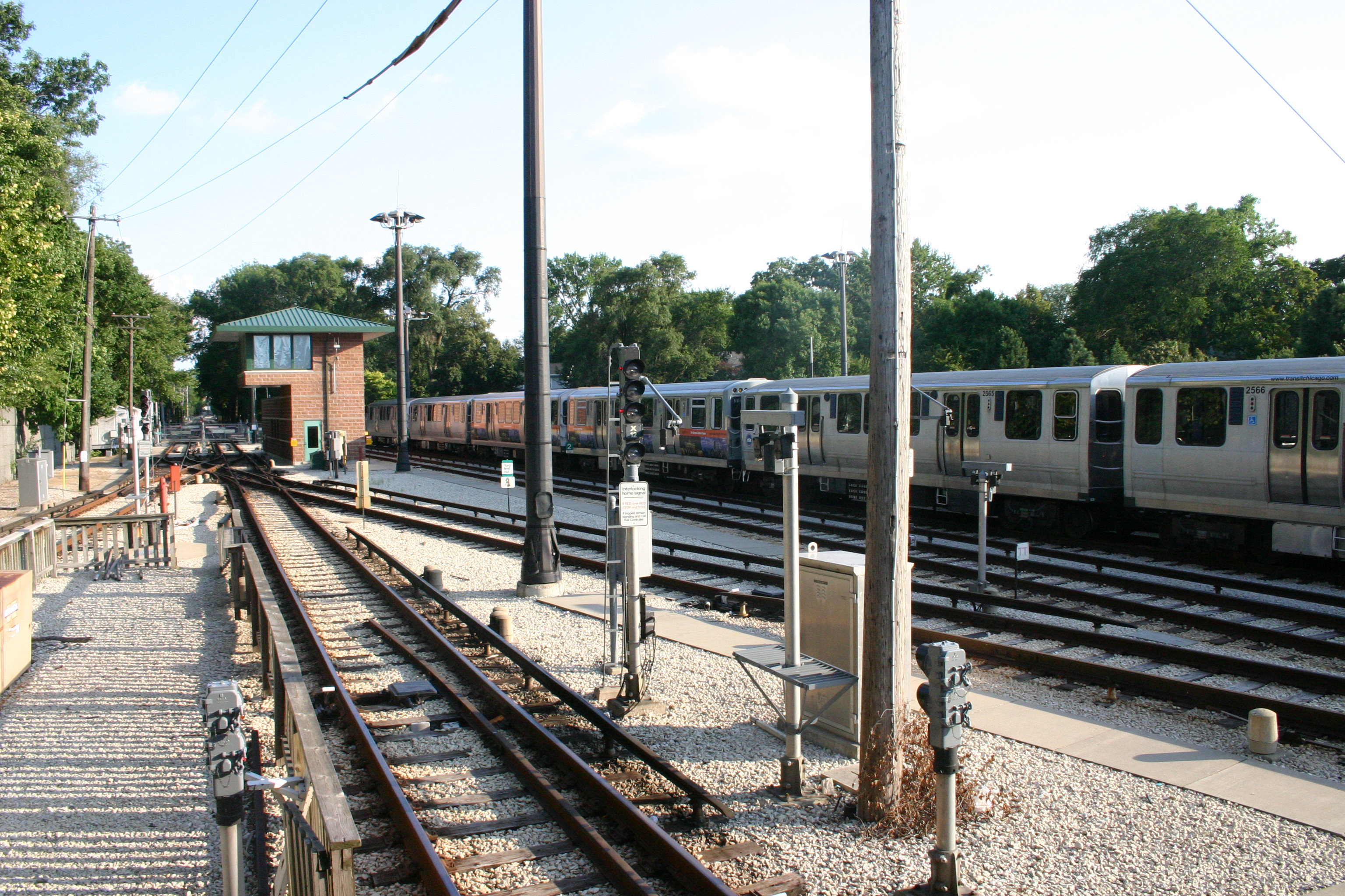 A train in the Linden CTA Yard in Wilmette.